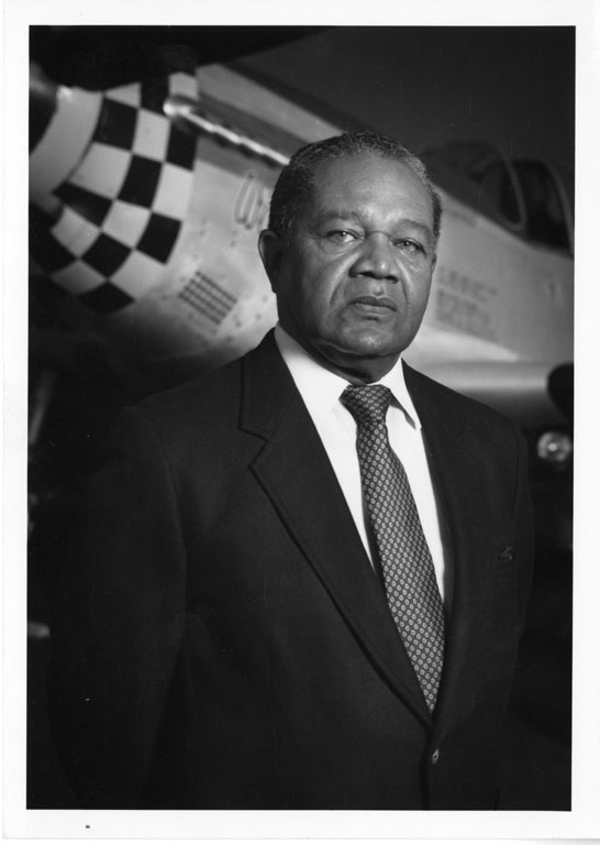 Louis R. Purnell, 1920-2001, curator of Astronautics at the National Air and Space Museum, stands in front of an aircraft in the museum. Early in his life he was able to realize his dream of becoming a pilot when the Civilian Pilot Training Program was instituted on the campus of his undergraduate institution, Lincoln University. In 1942, he was accepted into the seventh class of African American Army Air Force aviation cadets stationed at the Tuskegee Army Air Field in Tuskegee, Alabama (the Tuskegee Airmen), and in 1943 joined the all-Black 99th Fighter Squadron. During World War II, he completed two tours of duty in North Africa and southern Italy with the 99th, and later the 332nd Fighter Group After his return to the United States, Purnell worked with the Office of the Quartermaster General and the United States Book Exchange at the Library of Congress. In 1961, Purnell joined the Division of Invertebrate Paleontology and Paleobotany in the National Museum of Natural History. In 1968, he moved to the Department of Astronautics of the National Air and Space Museum. During his career in the Astronautics Department (renamed the Department of Space Science and Exploration in 1980), he progressed through the ranks from Museum Specialist to Curator until his retirement in January 1985 Full description